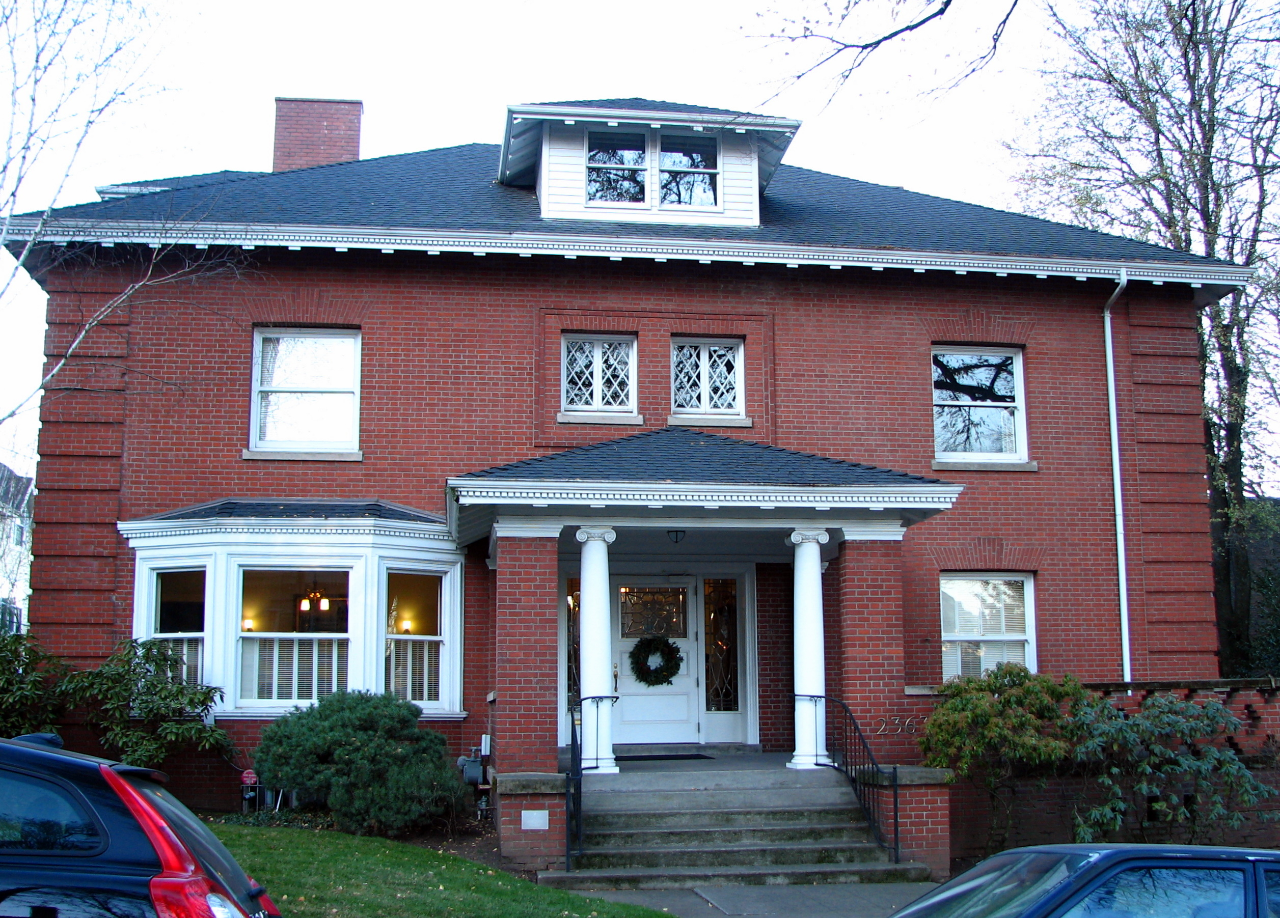 The historic Charles F. Adams House (built 1904), located at 2363 Northwest Flanders Street in Portland, Oregon, United States, is listed on the US National Register of Historic Places. It also lies in the NRHP-listed Alphabet Historic District.